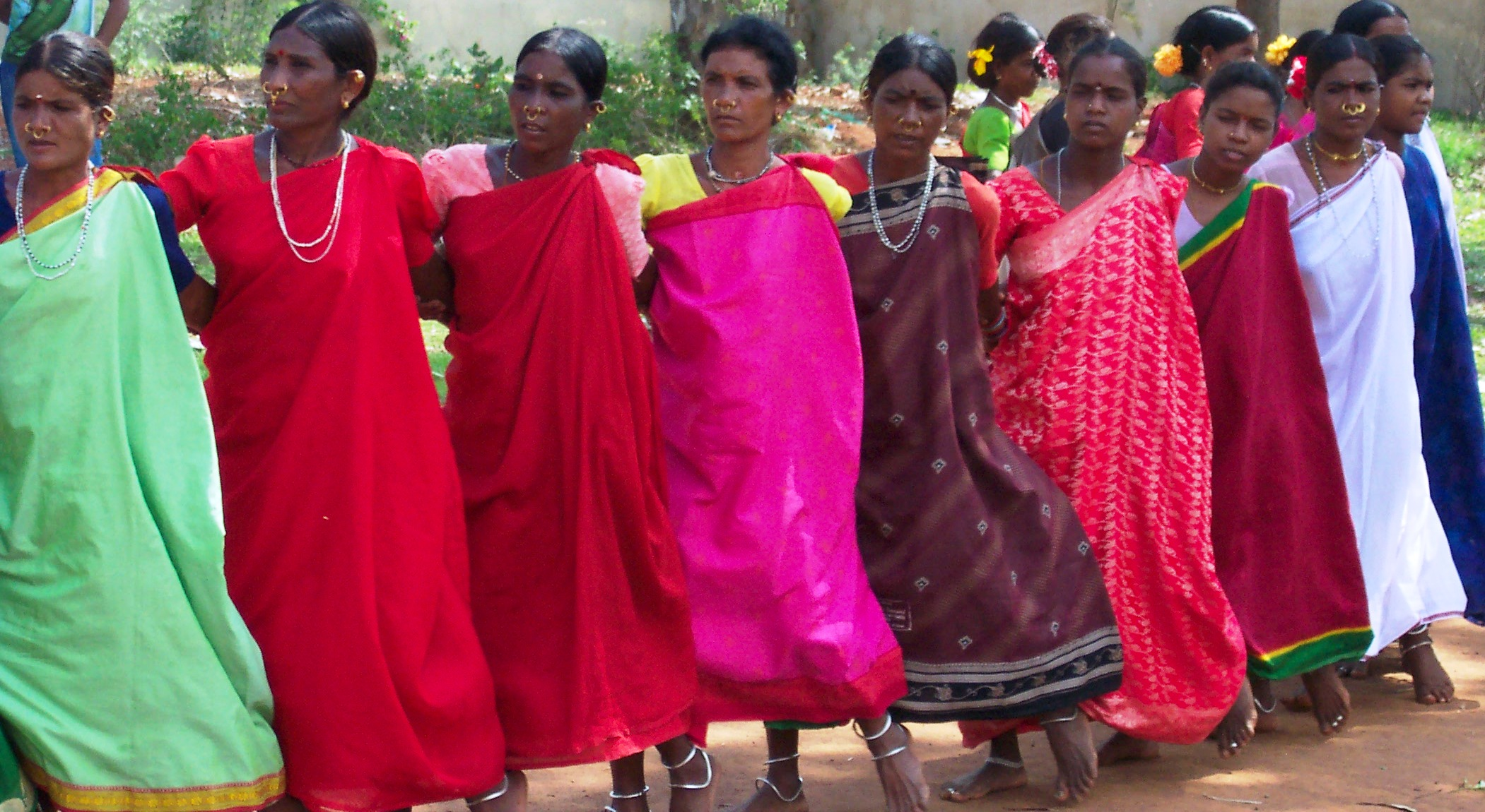 Tribal dancers perform in Araku Valley, Andhra Pradesh, India Photo by Robert Griner May 2005